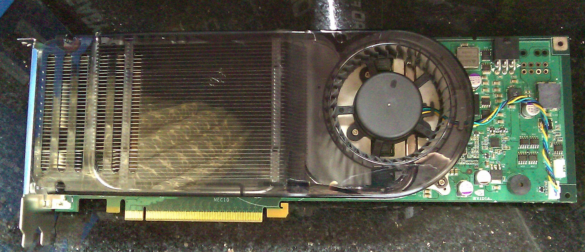 NVIDIA G80GL P350-A00: Tesla C870 / Quadro FX 5600 / GeForce 8800 GTX. OEM Quadro FX 5600 card, missing NVIDIA branding and second power connector.